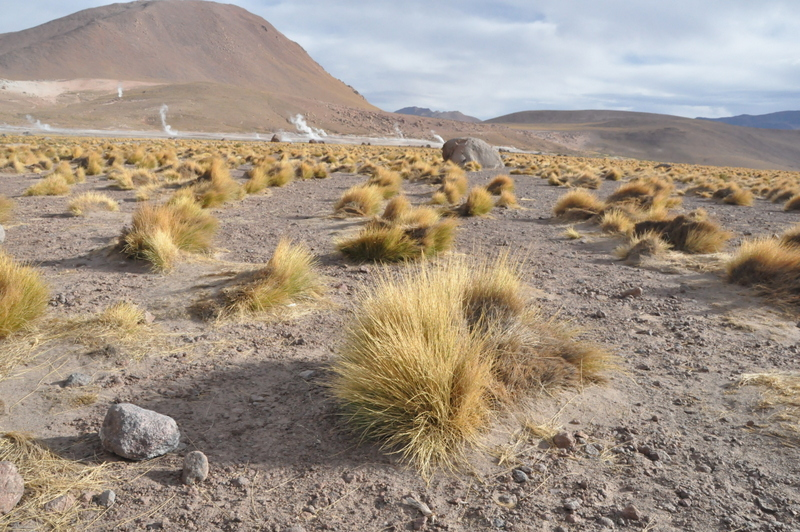 Festuca orthophylla near Tatio geysers field, Antofagasta Region, Chile